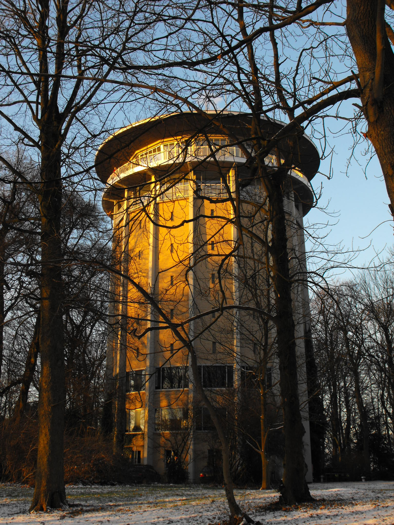 Belvedere Tower